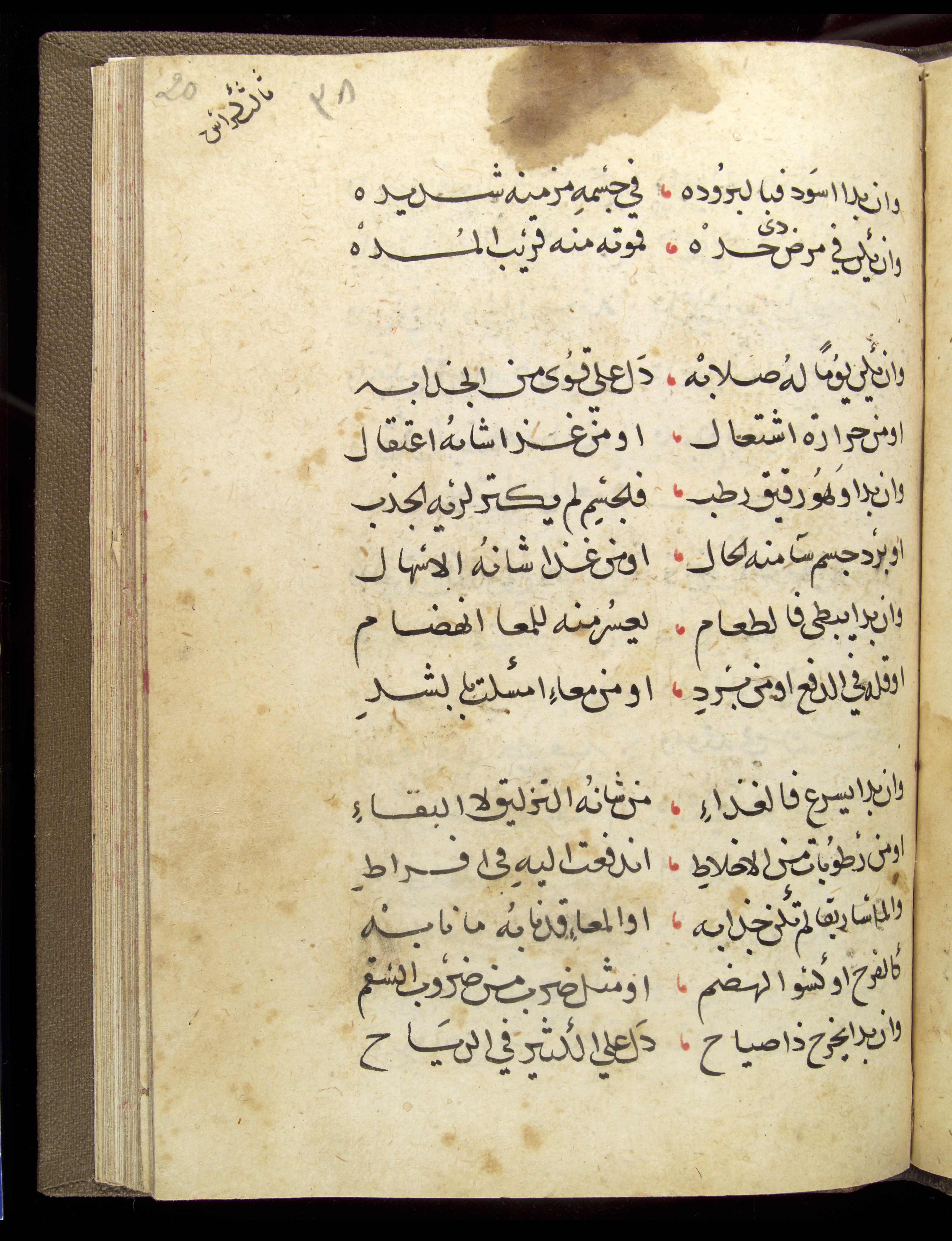 Page from Urguza fi-t-Tibb, an Arabic medical text in naskh script, medicine Asian Collection Keywords: Arabic